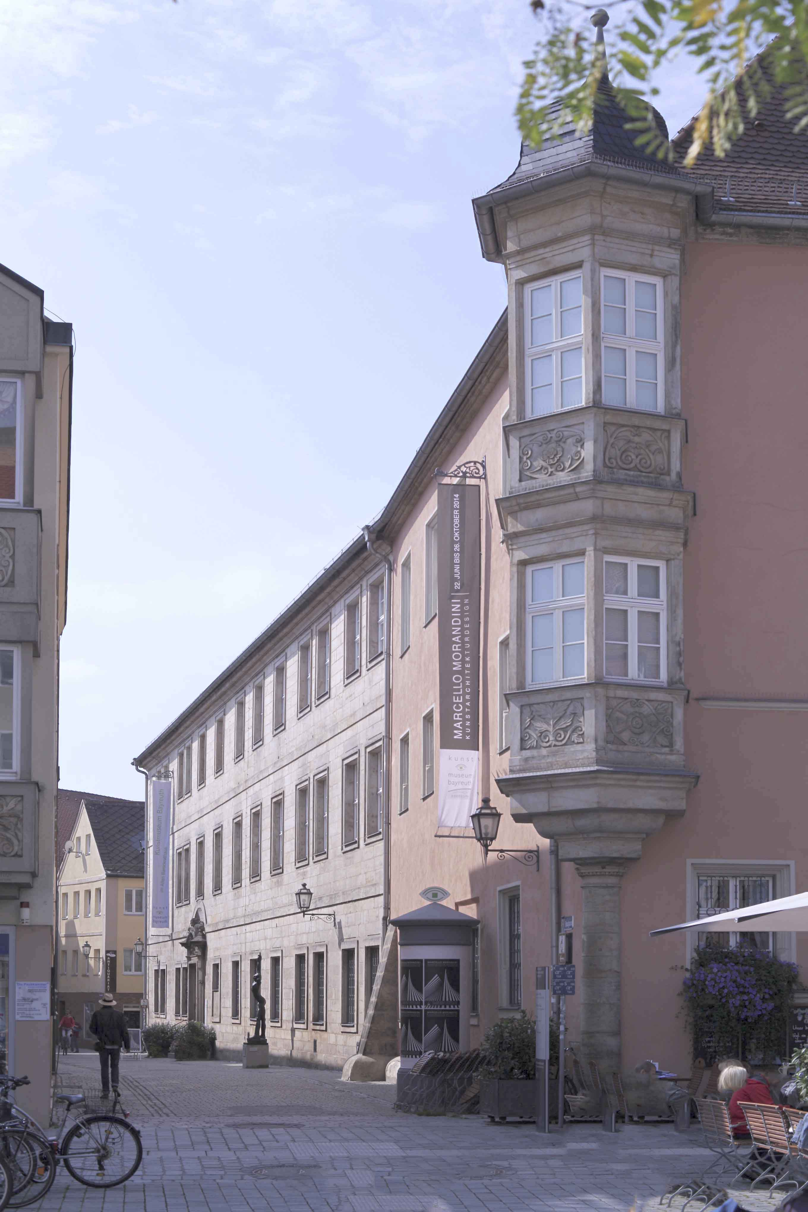 Kunstmuseum Bayreuth, Eingang in der BraugasseThis is a photograph of an architectural monument.